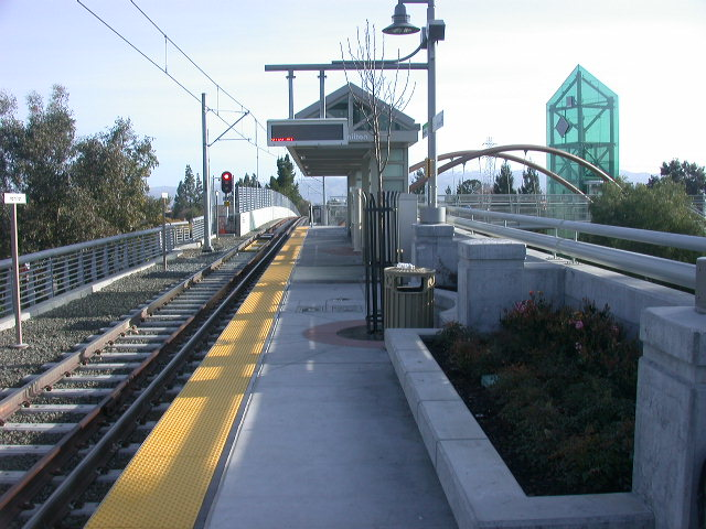 Hamilton Station on the Santa Clara VTA light rail system - looking northeast along the elevated platform. Distinctive bridge and elevator enclosure can be seen in the distance on the right.